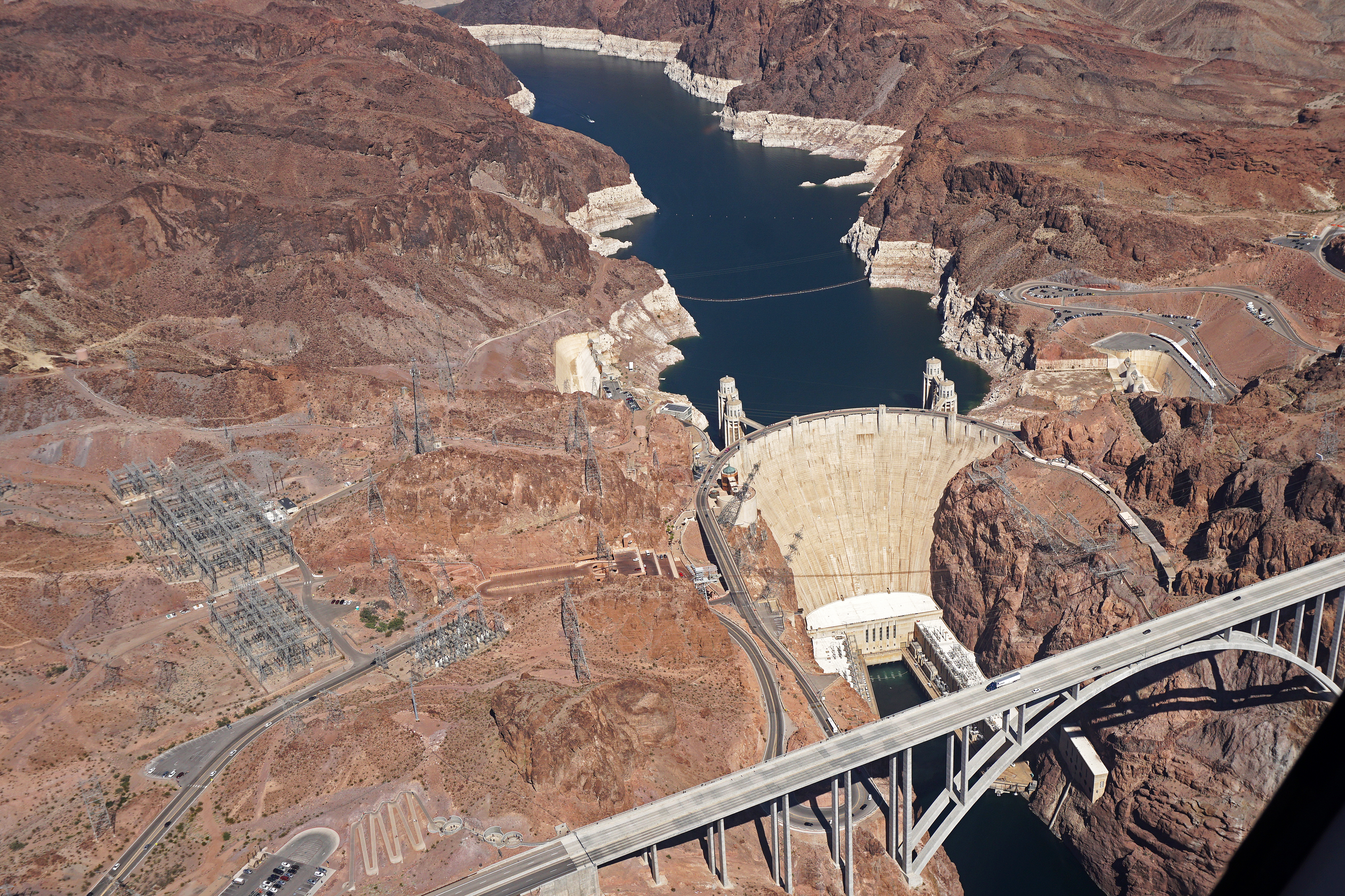 Aerial view of Hoover Dam, Nevada-Arizona.